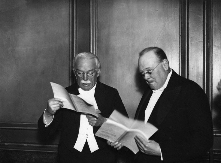 winston-churchill and David Lloyd George in 1934